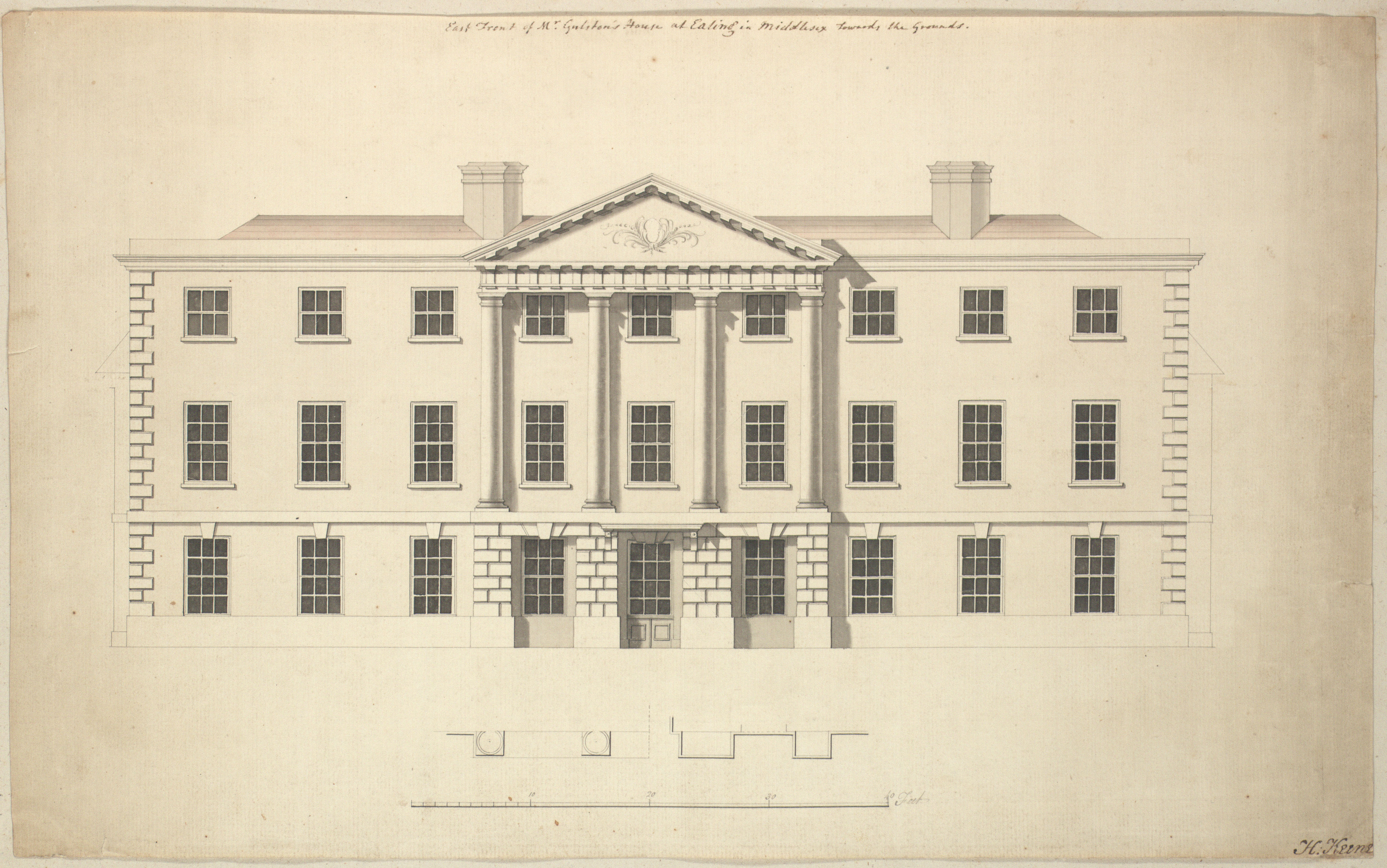 Architectural drawing by Henry Keene (1726-1776) of facade of Ealing Grove, built for Joseph Gulston II. Other information Coloured east front elevation of Mr. Gulston's House at Ealing in Middlesex towards the grounds.